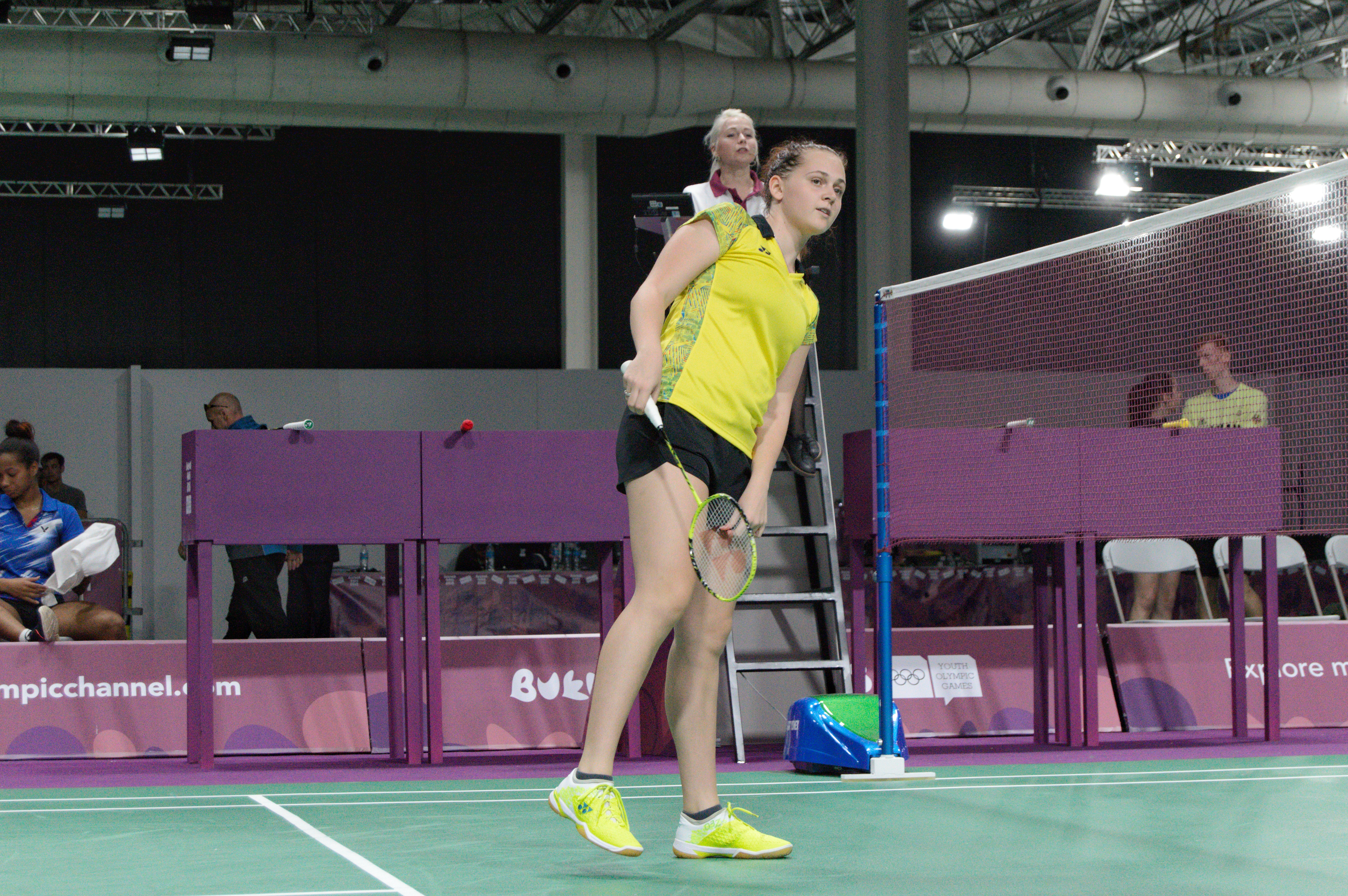 Bronze medal match for the badminton mixed relay team tournament at the 2018 Summer Youth Olympics. Match 7.